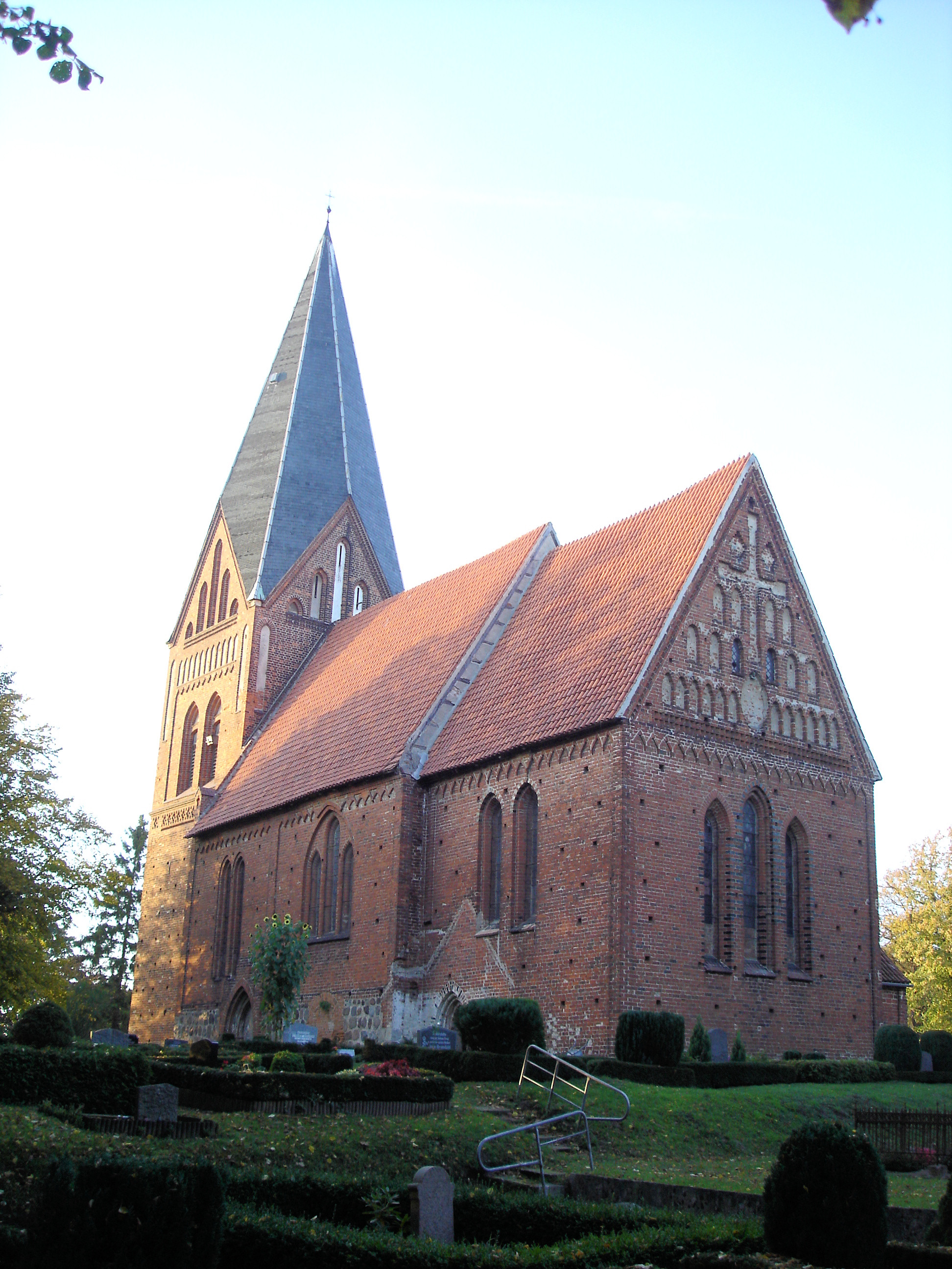 Church in Dreveskirchen, Mecklenburg, Germany